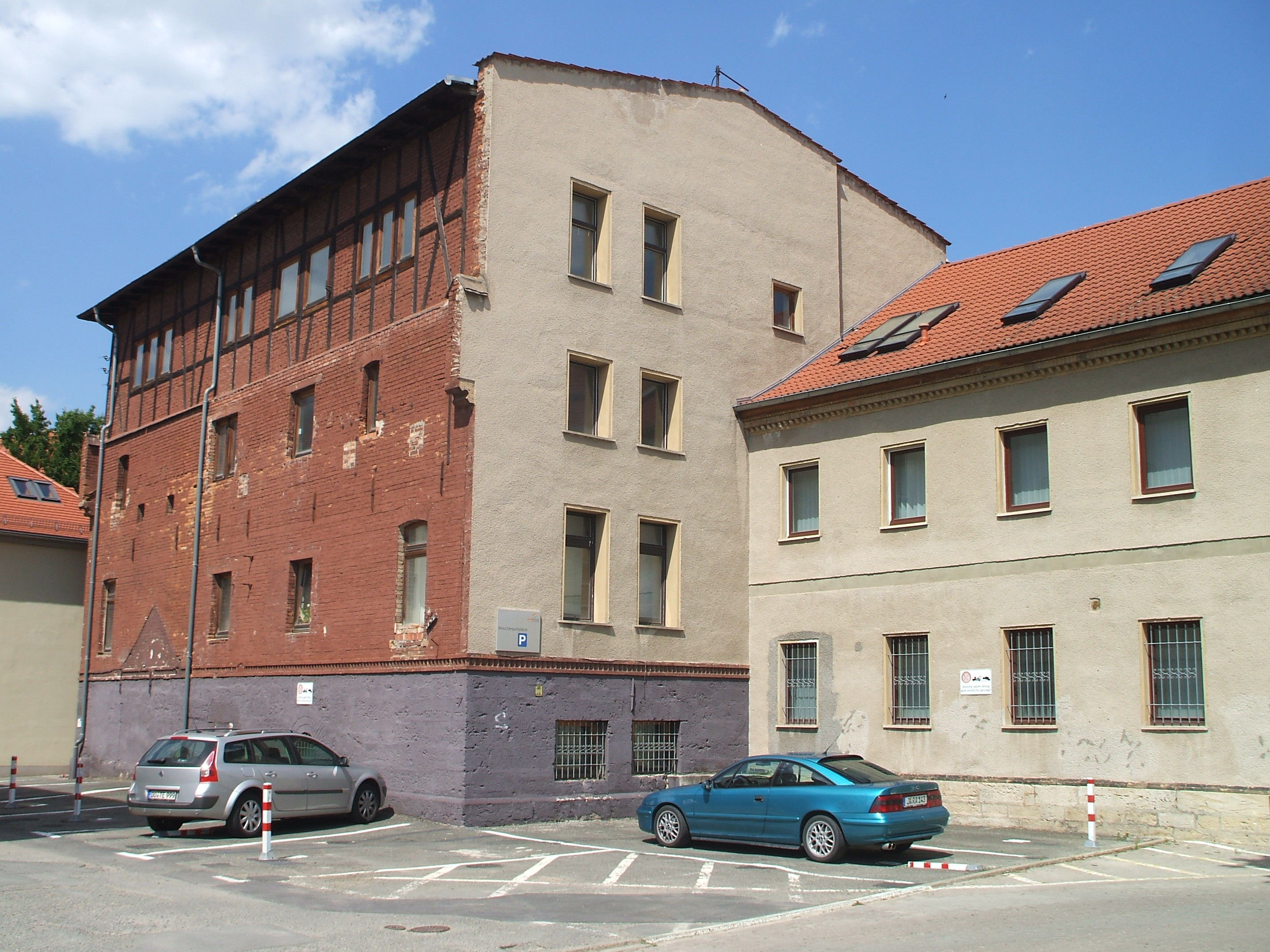 Am Rähmen 3, Jena, Germany; the house where Matthias Domaschk lived (demolished 3 March 2014)